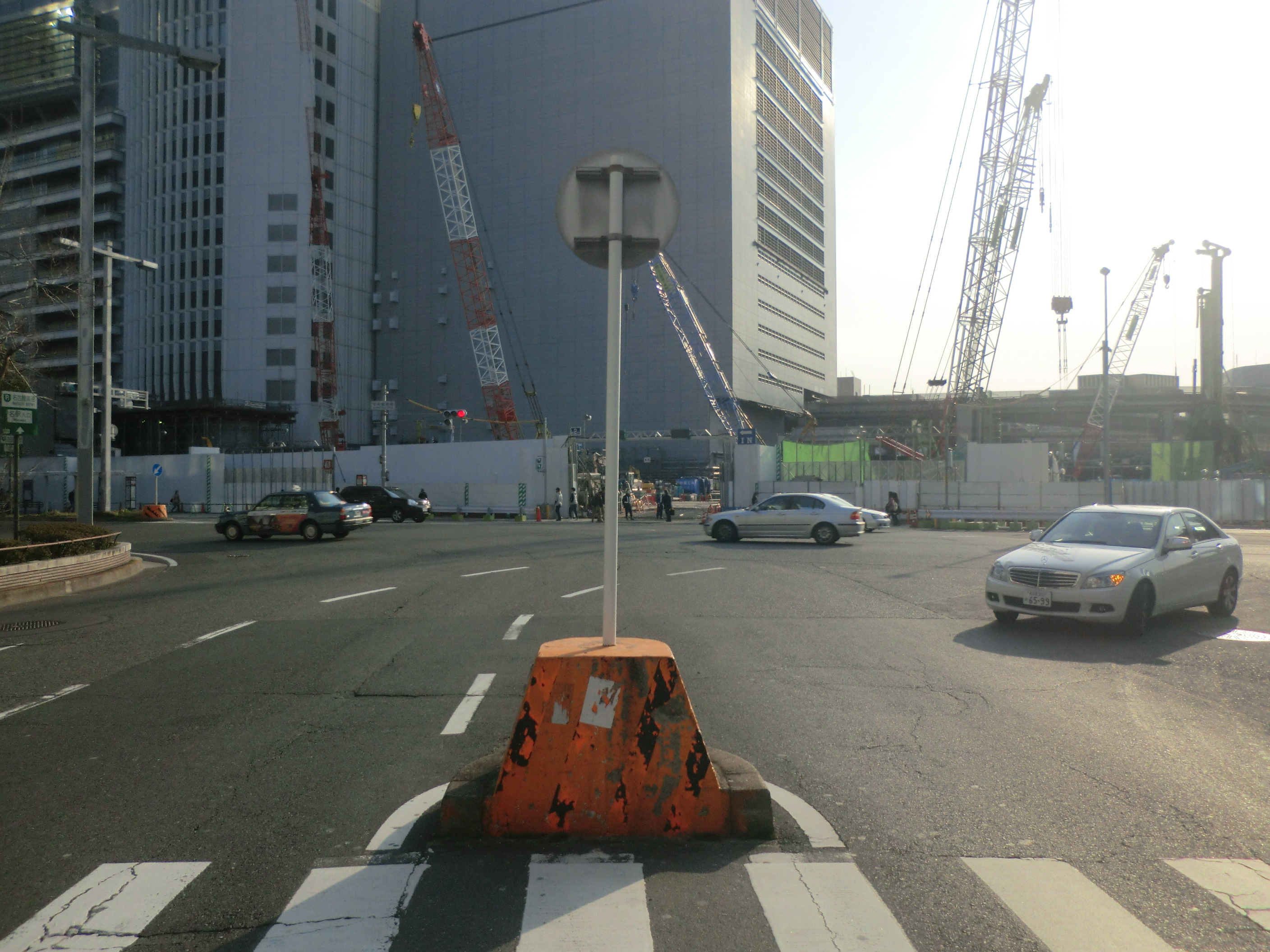 Chuo Yubinkyoku crossing at Meieki area in Nakamura ward, Nagoya, Japan. This is location point of CD jucket of SKE48's "Sansei Kawaii!".